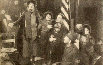 Still for the American drama film Salvation Nell (1921) with Pauline Starke, on page 57 of the September 1921 Photoplay.